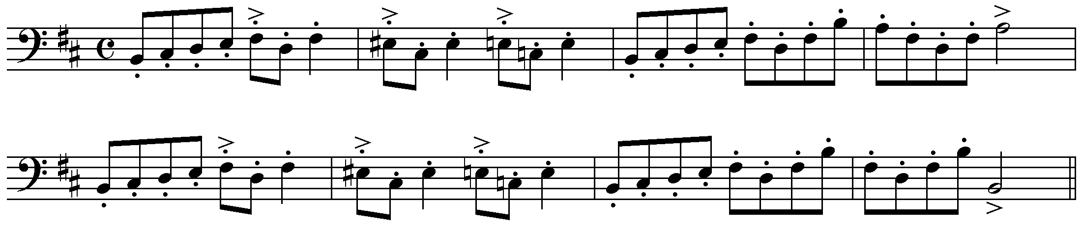 The main theme from Grieg's "In the Hall of the Mountain King".